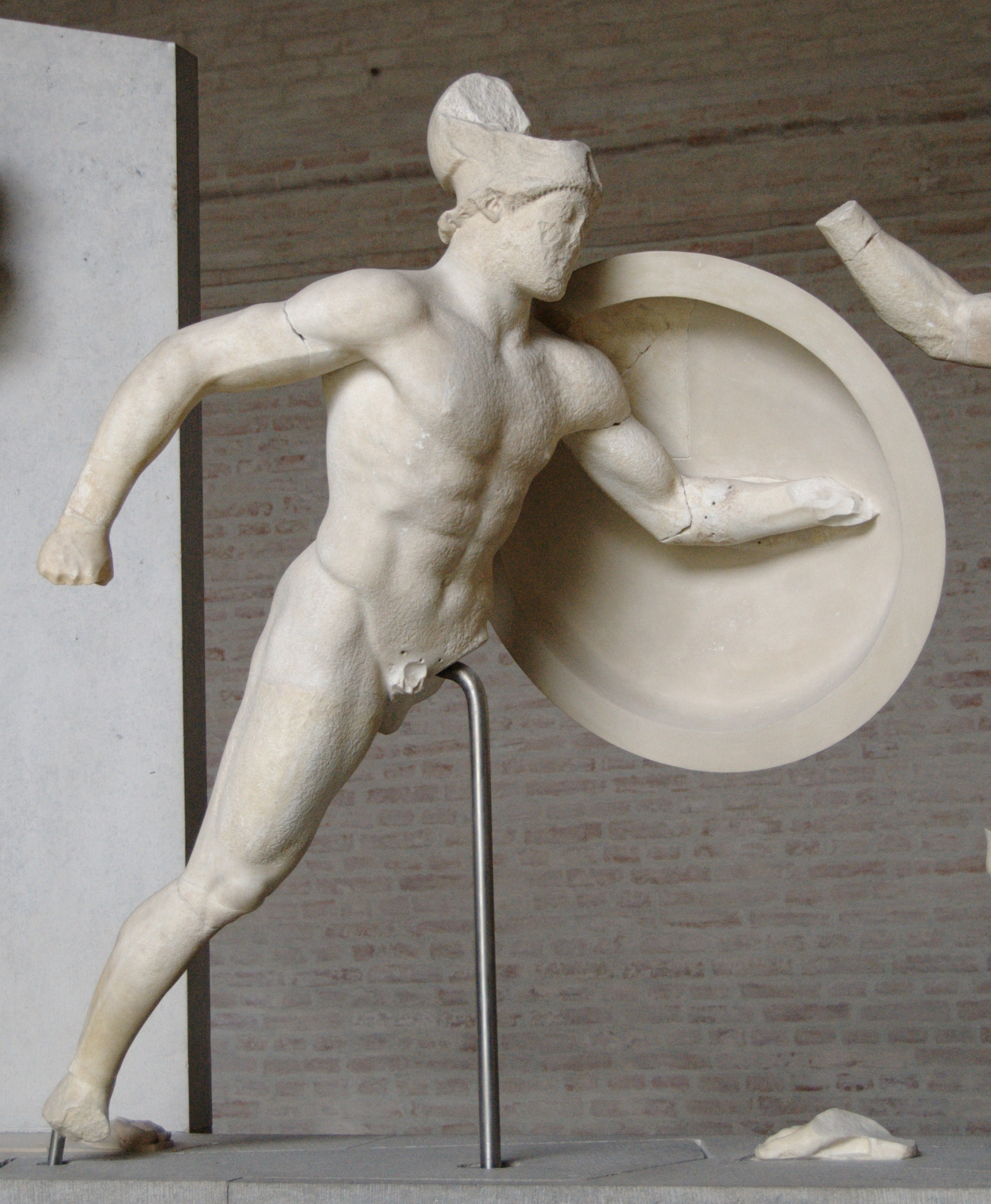 Trojan warrior (so called “Priam”), figure E-II of the east pediment of the Temple of Aphaia, ca. 485–480 BC.